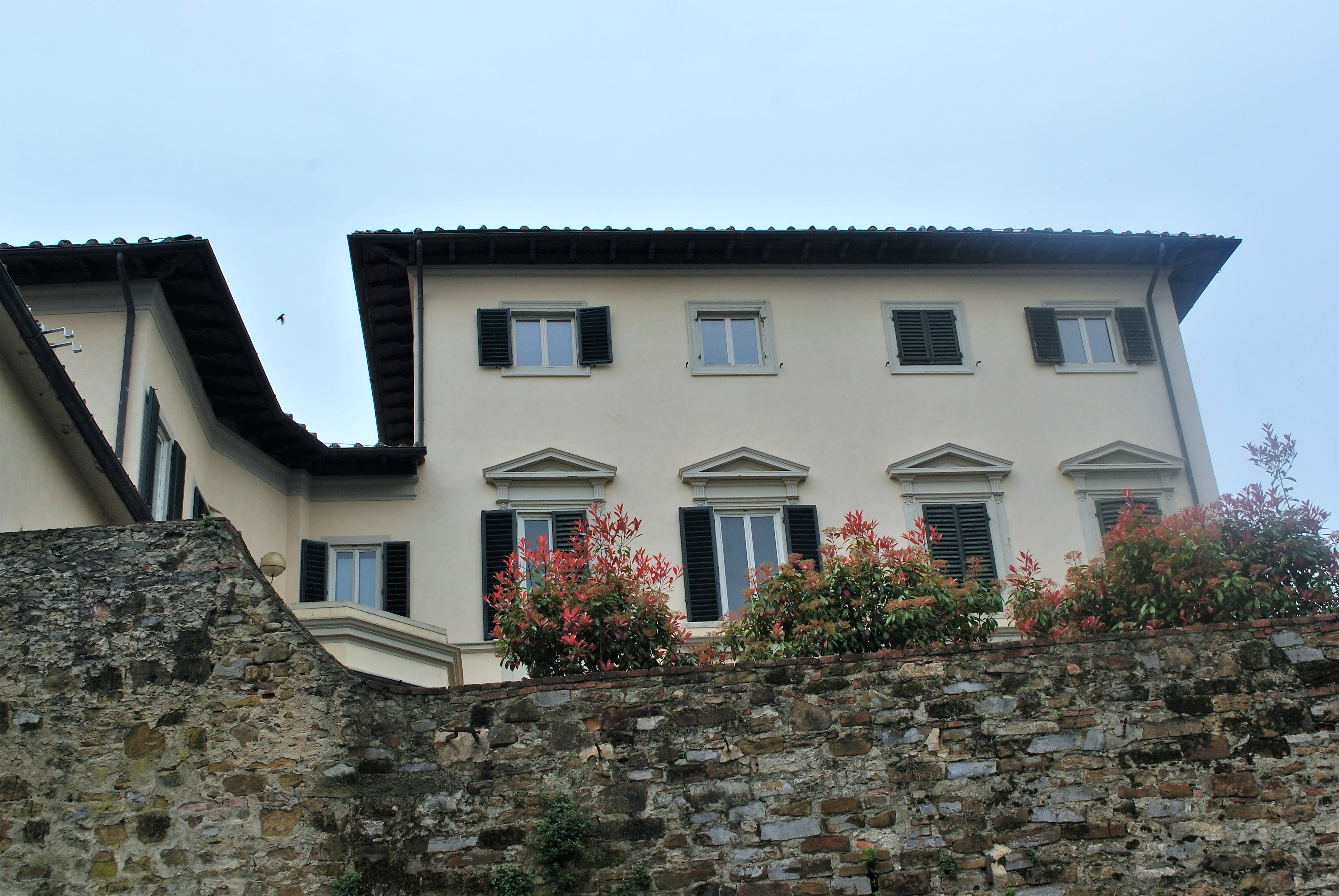 Image originally published in Queer Places: Retracing the Steps of LGBTQ people around the World Authored by Elisa Rolle